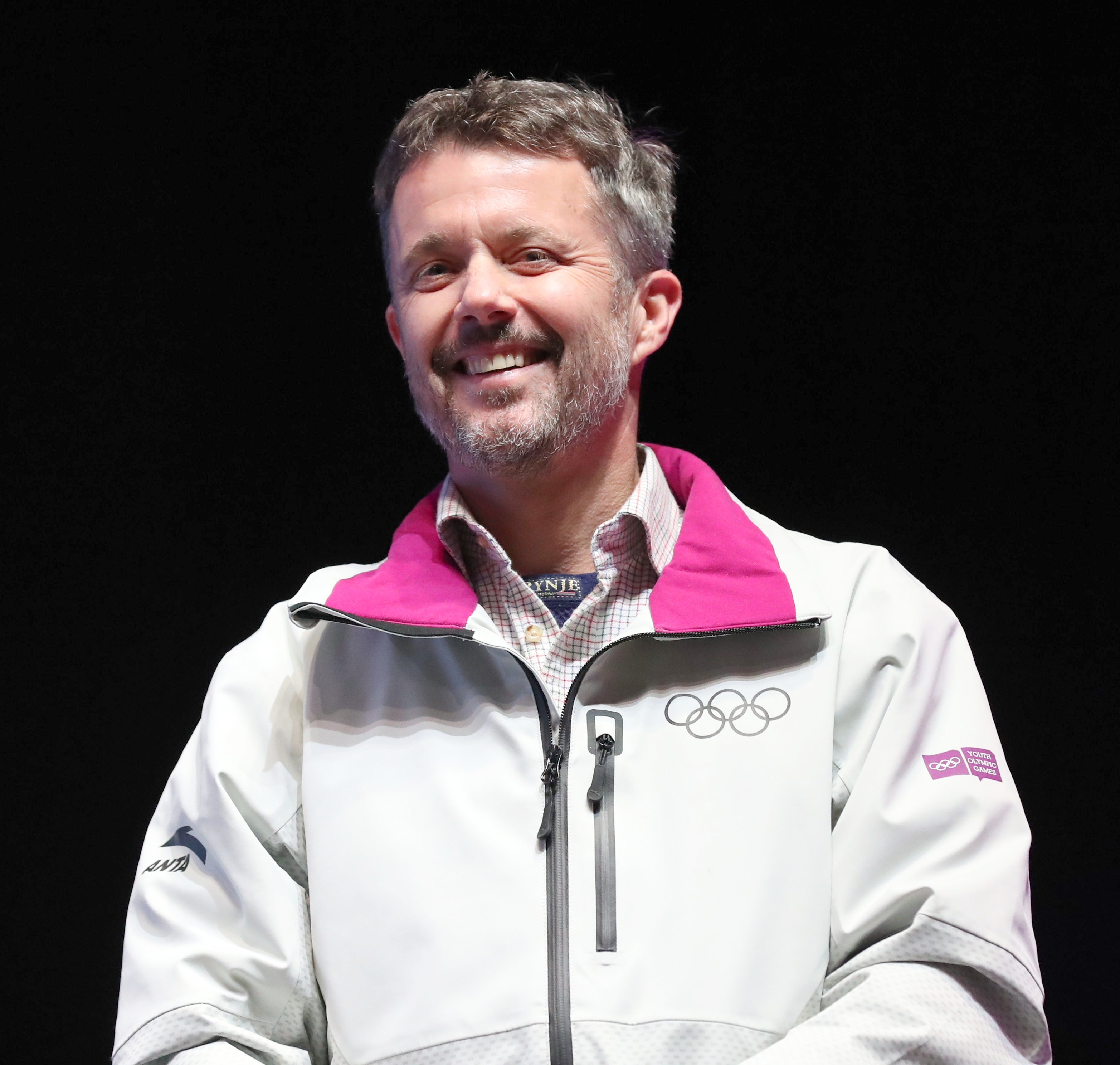 Medal Ceremony Day 6, 2020 Winter Youth Olympics in Lausanne